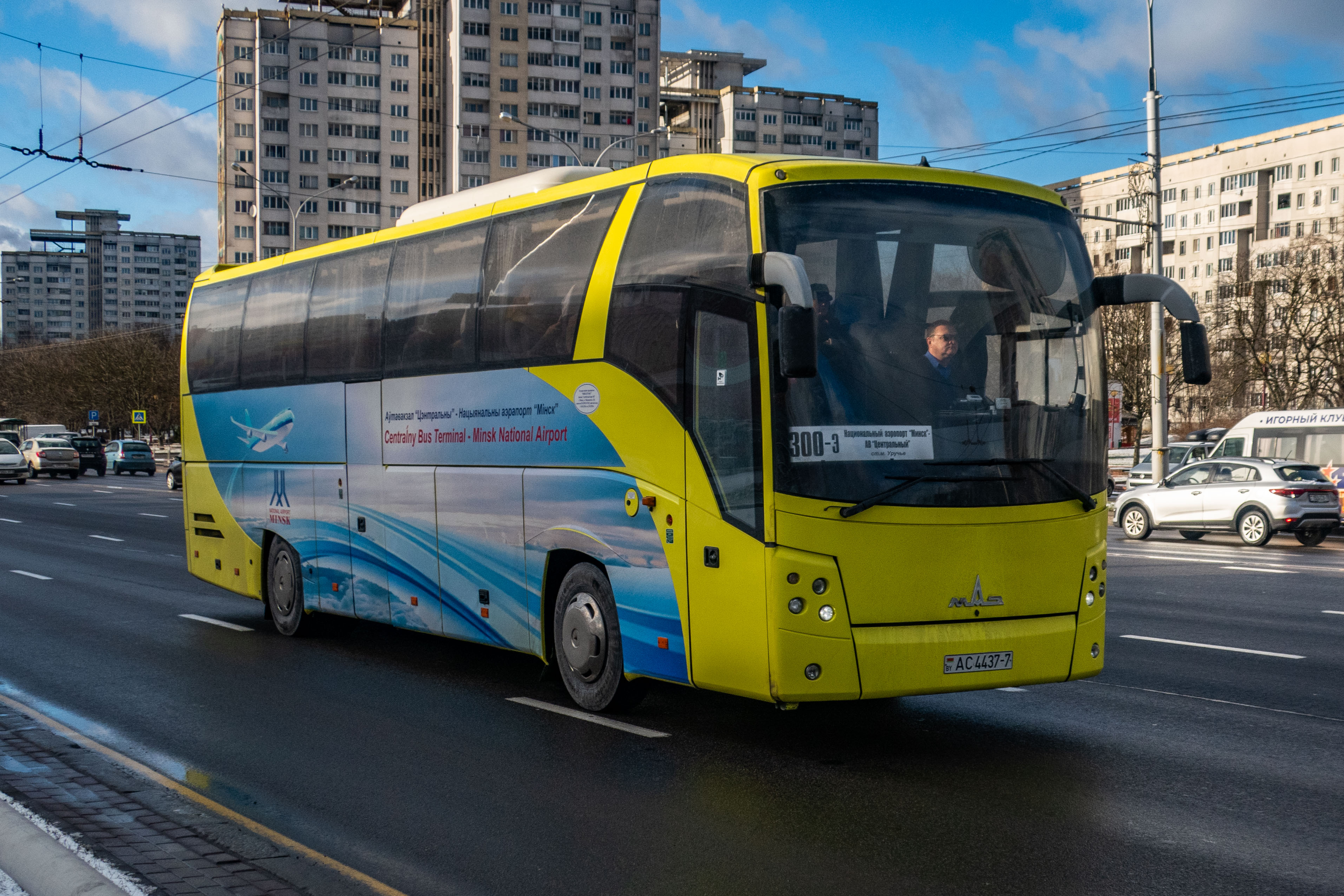 MAZ-251 bus. Minsk, Belarus